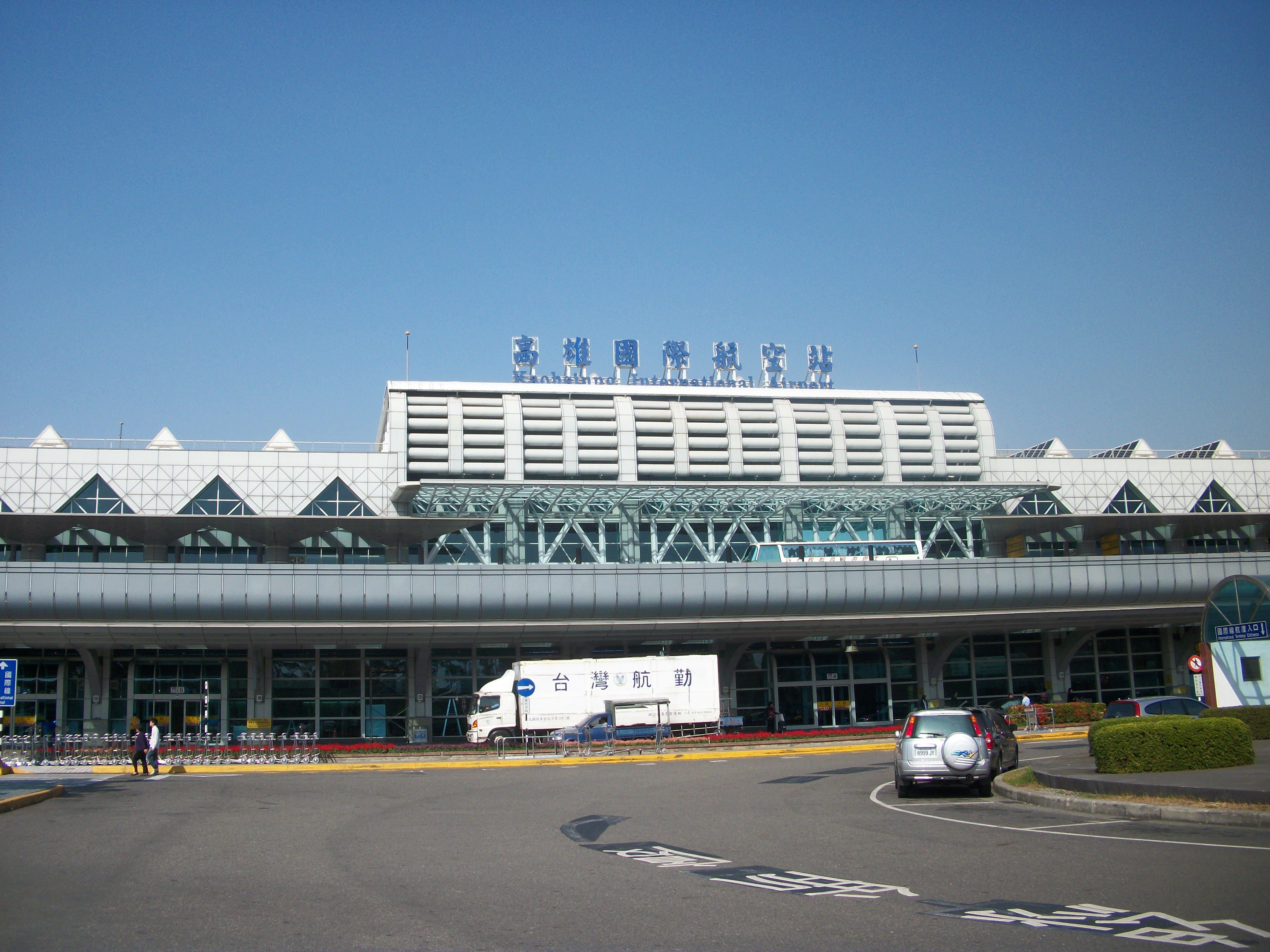 Kaohsiung International Airport also called "Siaogang International Airport",it located Zhongshan 4th Rd. in Kaohsiung City,near MRT] station.